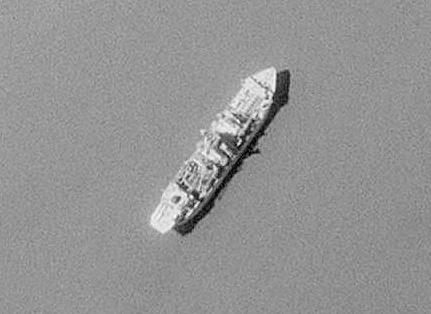 Glomar Explorer mothballed in Susiun Bay, California.